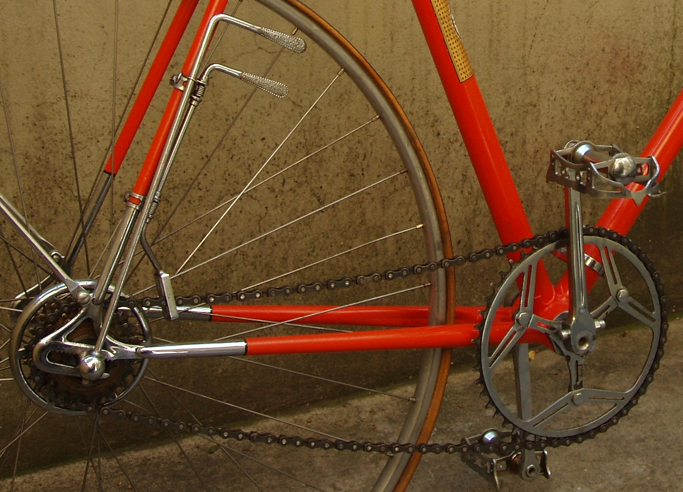 Rear Derailleur Named : "Cambio Corsa" . Brand : Campagnolo